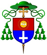 Coat of arms of Mořic Pícha, Bishop of Hradec Králové